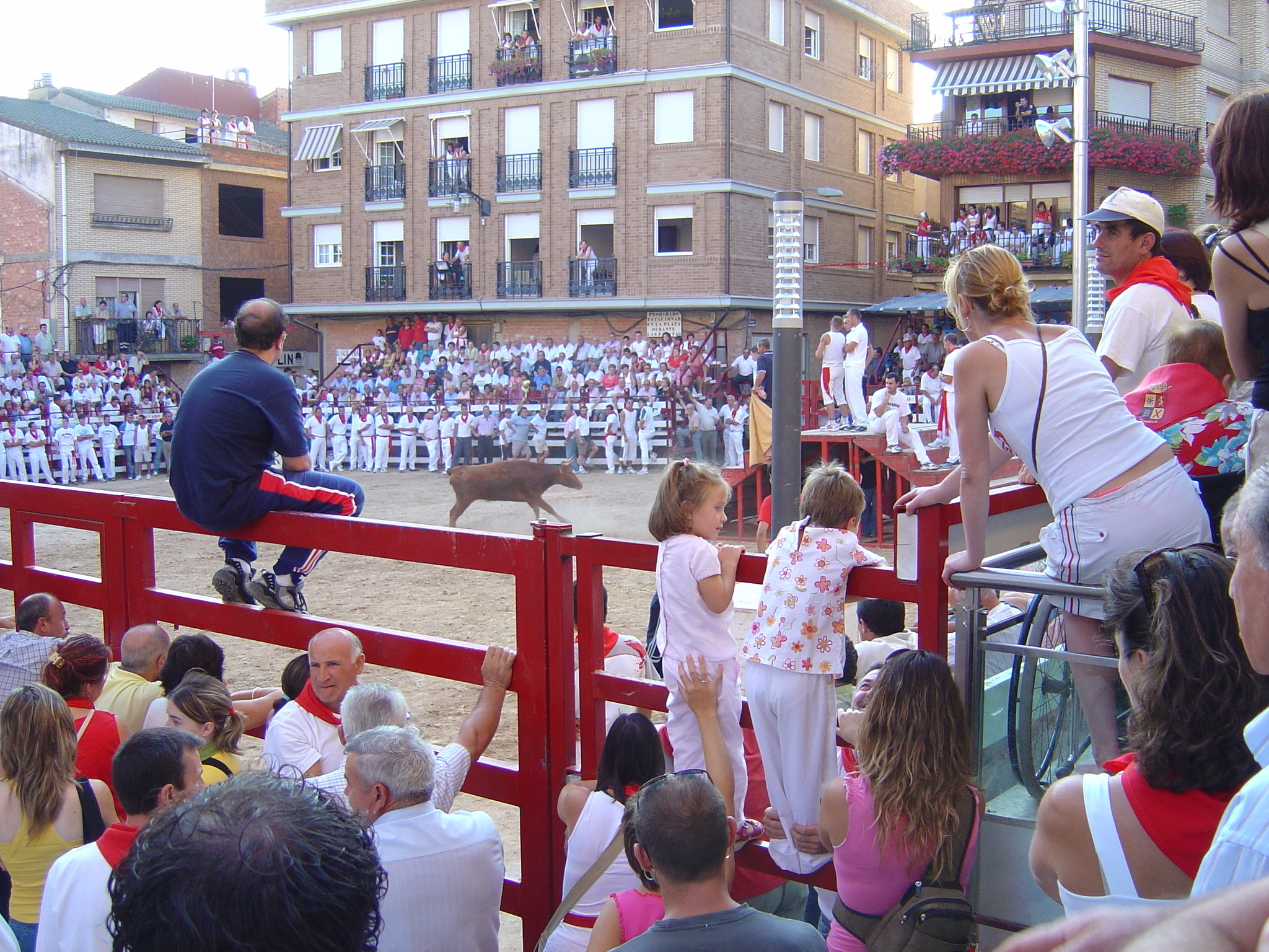 Fiesta. Mendavia. Navarra. Spanien Cornava own work 26.3.2007 --Cornava 09:39, 30 March 2007 (UTC)